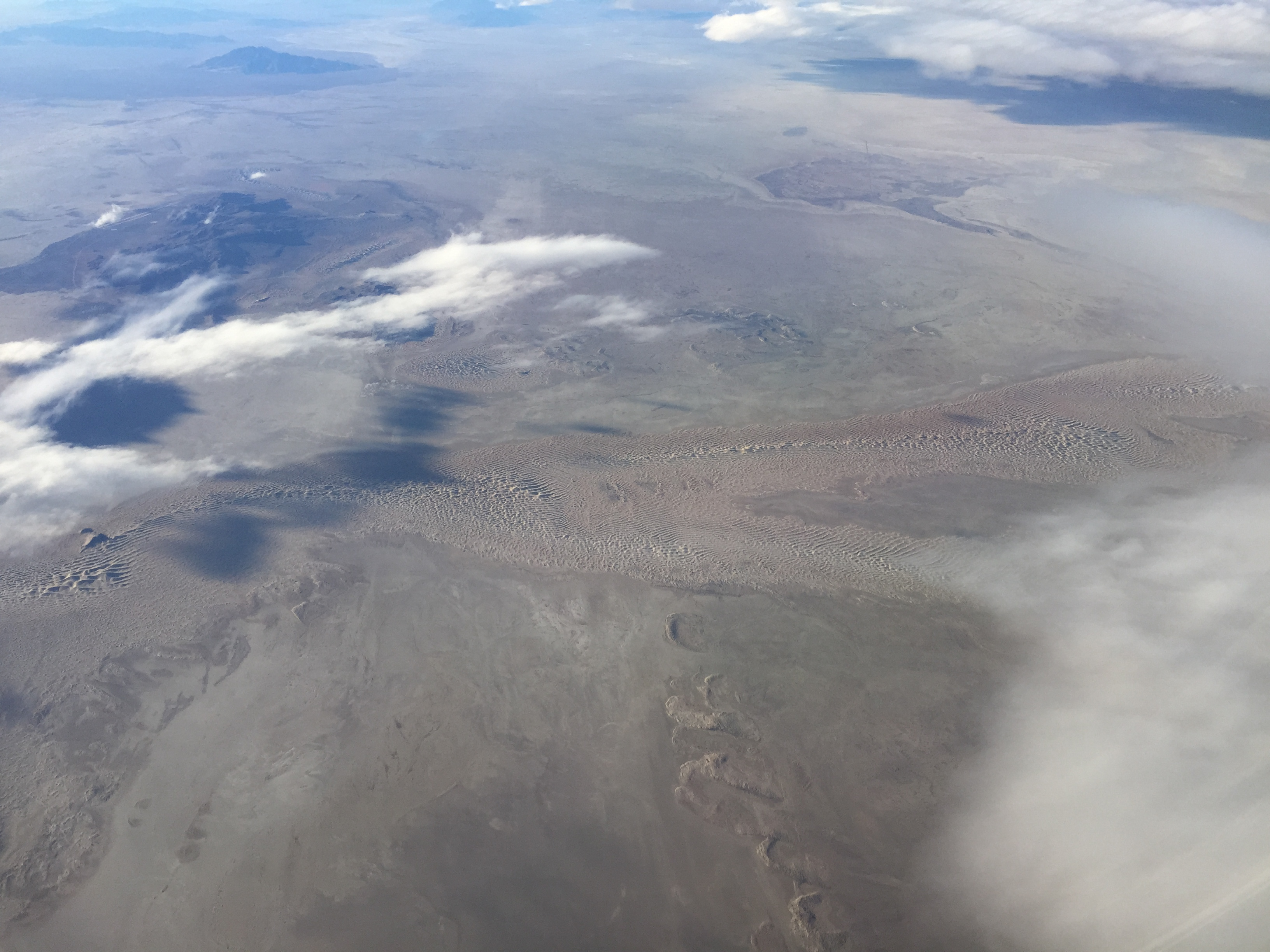 View south across the Utah Test Range in the Great Salt Lake Desert, Utah from an airplane flying from Reno, Nevada to Salt Lake City, Utah